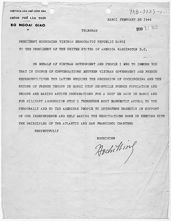 Letter from Ho Chi Minh to President Harry S. Truman, 02/28/1946.